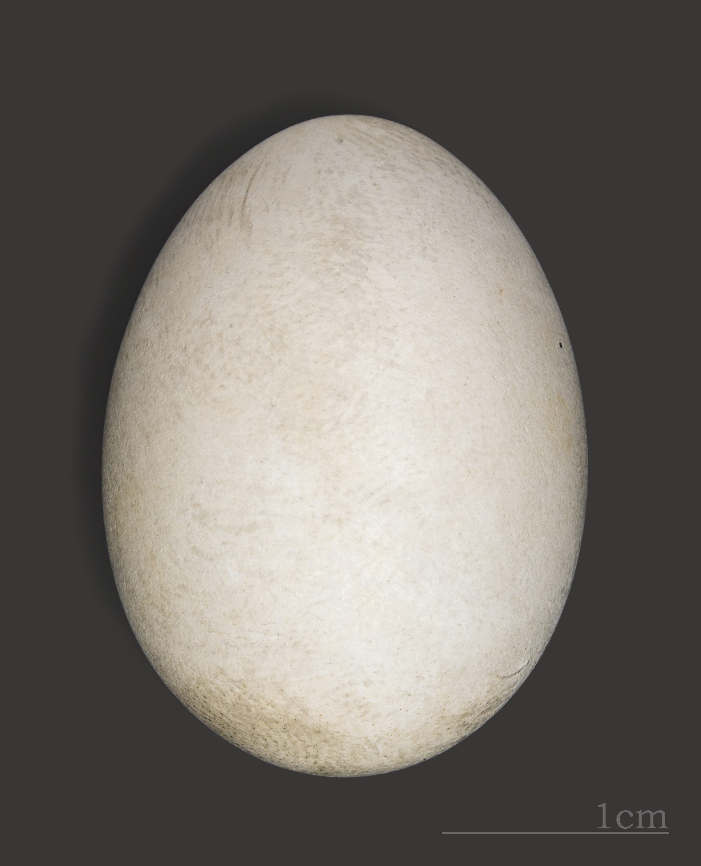 Egg of Ashy storm petrel. Collection of René de Naurois /Jacques Perrin de Brichambaut.